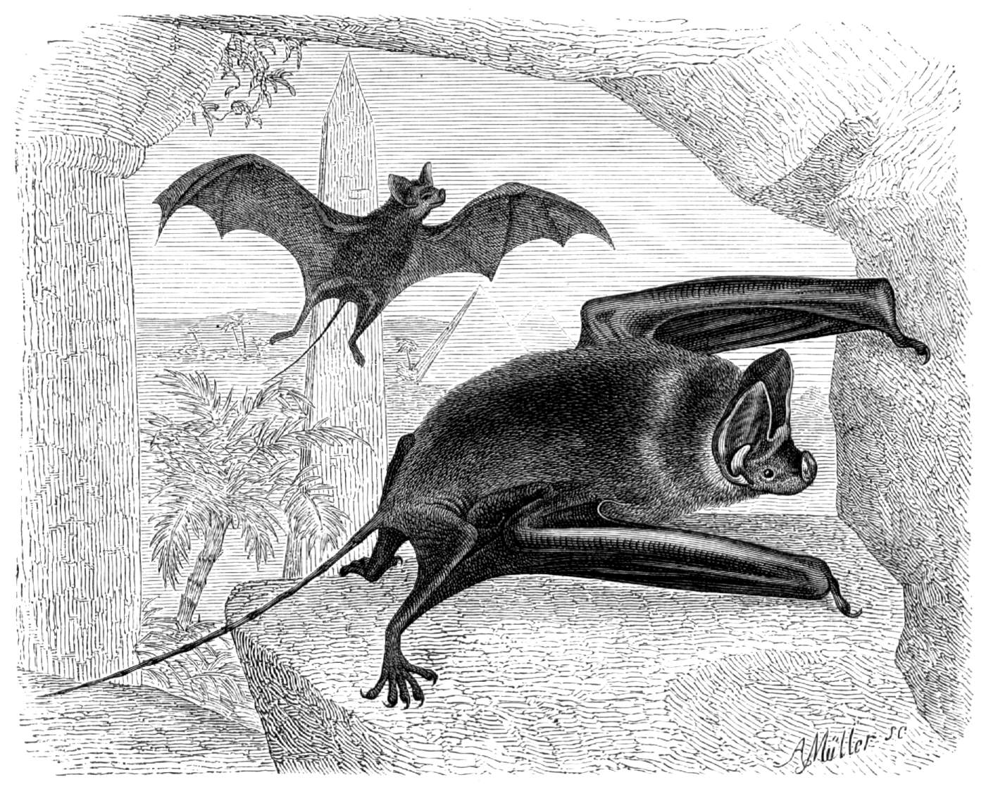 Greater Mouse-tailed Bat (Rhinopoma microphyllum)